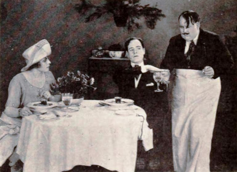 Still from the American comedy film A Kiss in Time (1921) with Wanda Hawley, T. Roy Barnes, and Walter Hiers, on page 73 of the June 25, 1921 Exhibitors Herald.